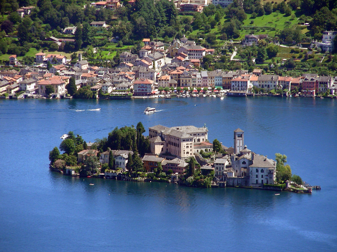 Italy, Pedimont, province of Novara, Orta San Giulio and island of San Giulio, from the sanctuary of Madonna del Sasso